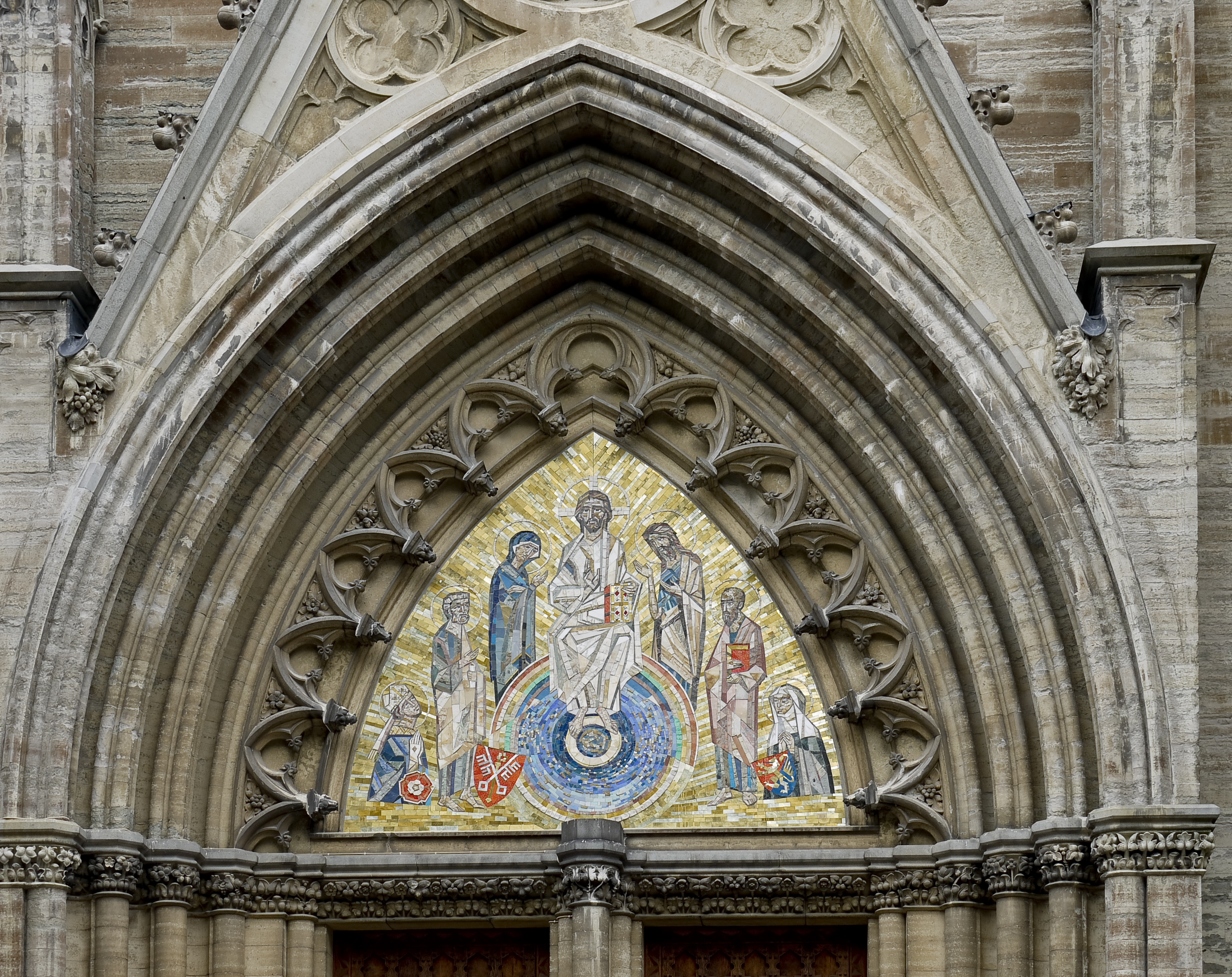 Linköping Cathedral, Linköping, Sweden. Portal on main entrance.